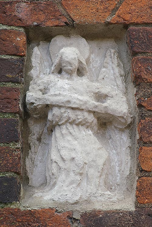 Sculpture St. Matteus, St. Peter church, Malmo, Sweden, about 1460.